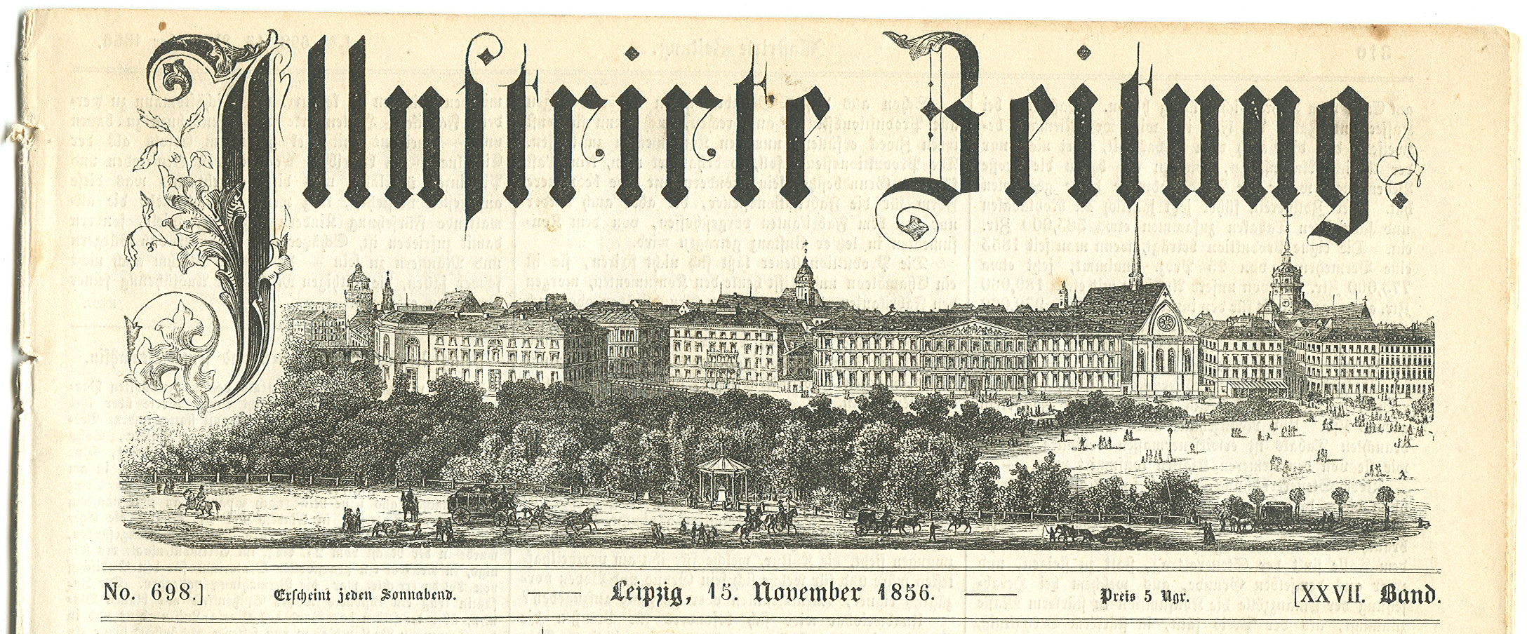 Head of the Illustrirte Zeitung